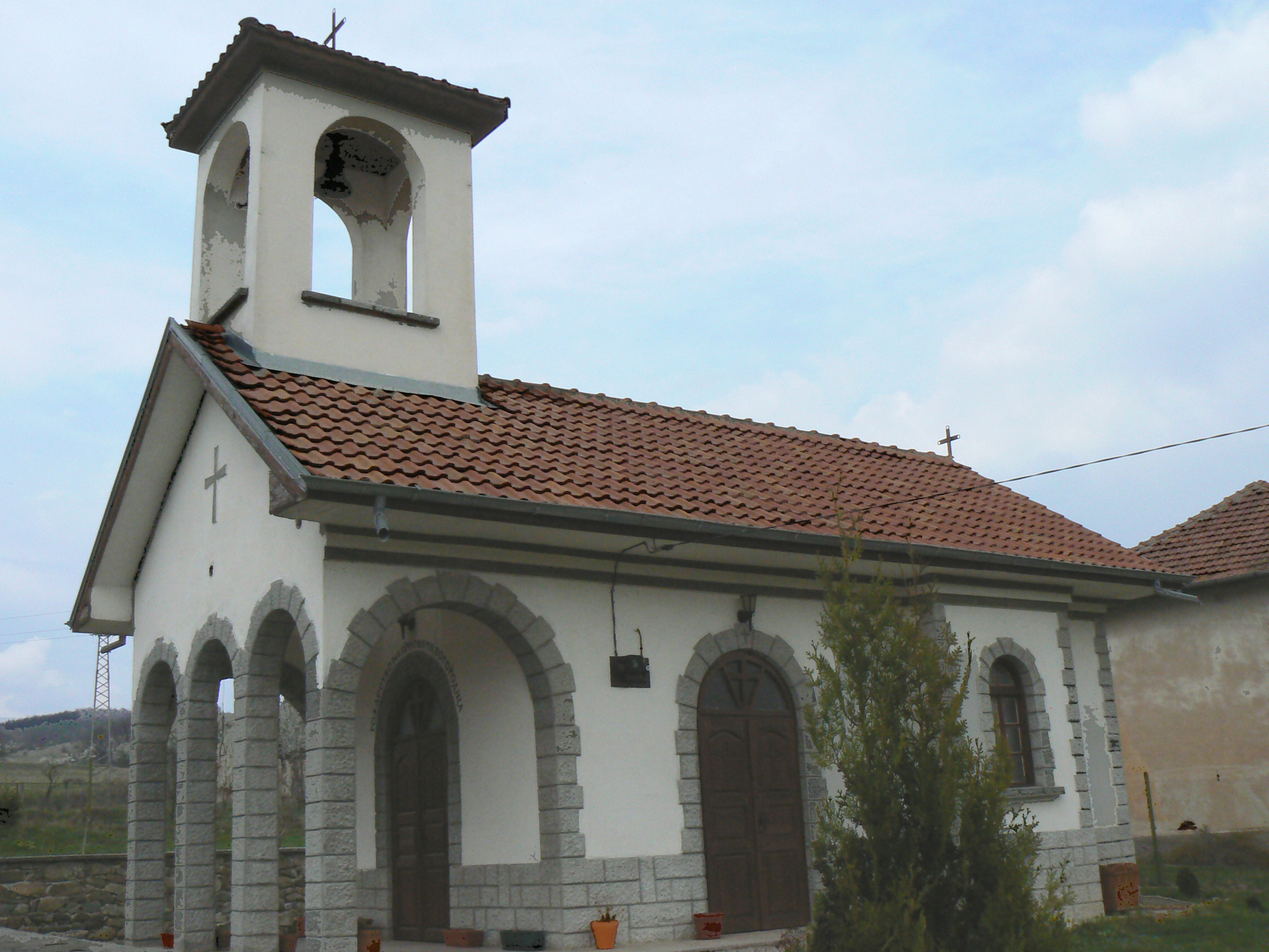 The church of village Benkovski, Sofia district, Bulgaria